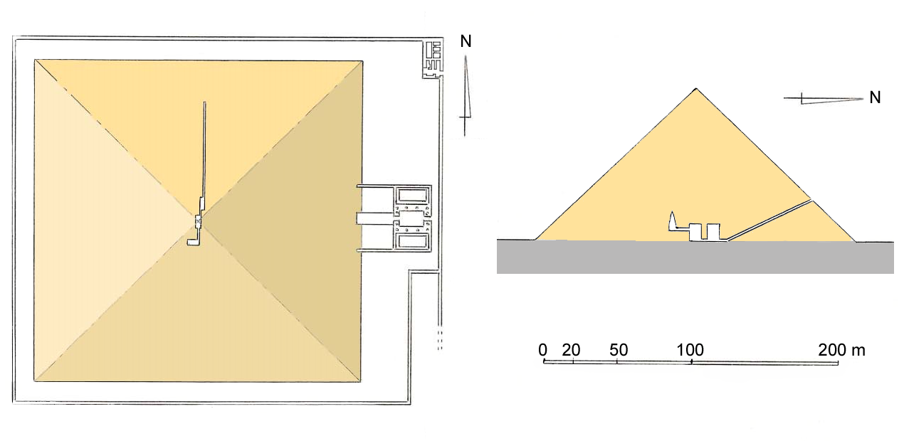 Plan der Roten Pyramide in Dahschur